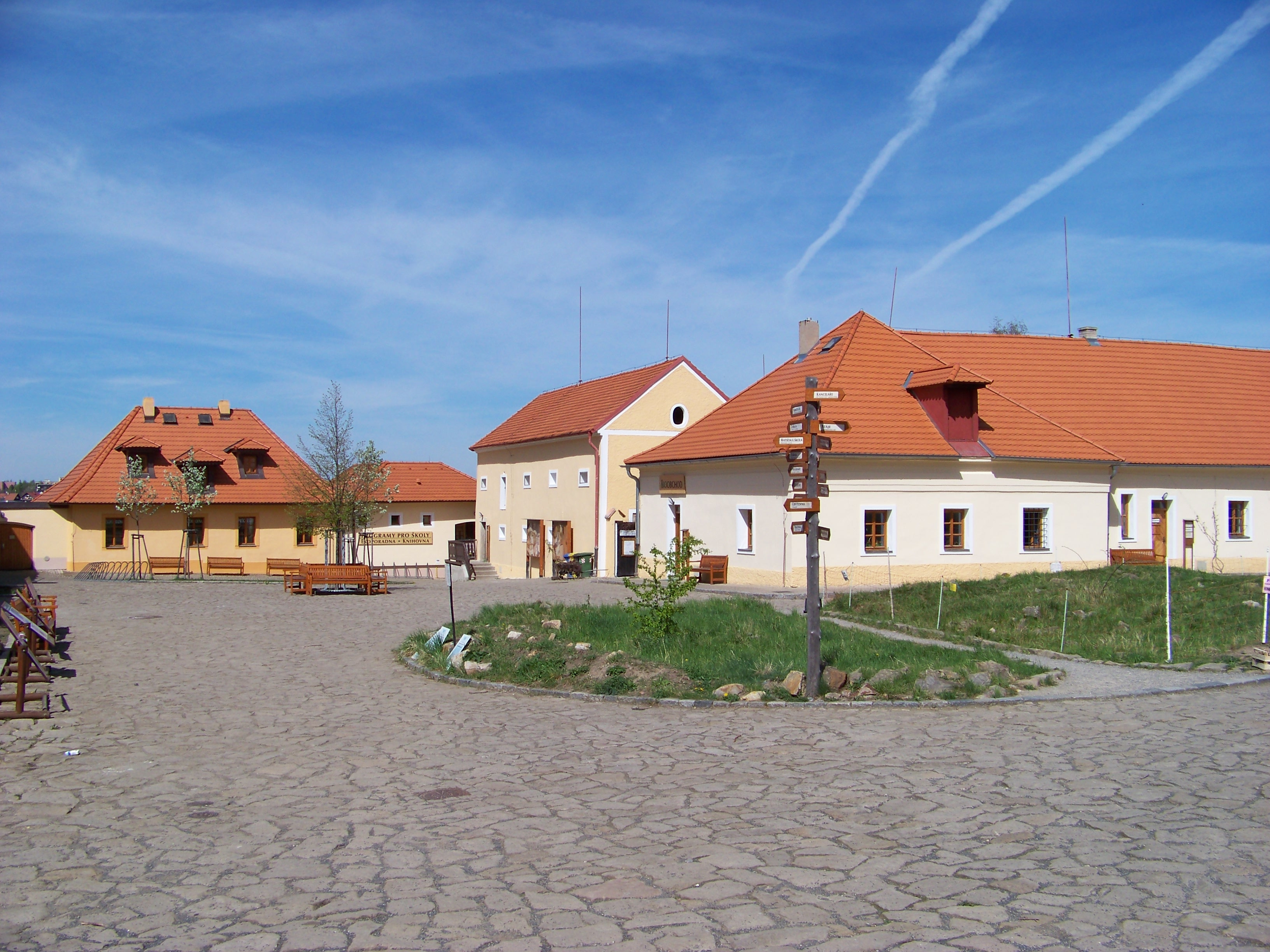 Prague-Hostivař, the Czech Republic. Toulec Homestead, the courtyard.